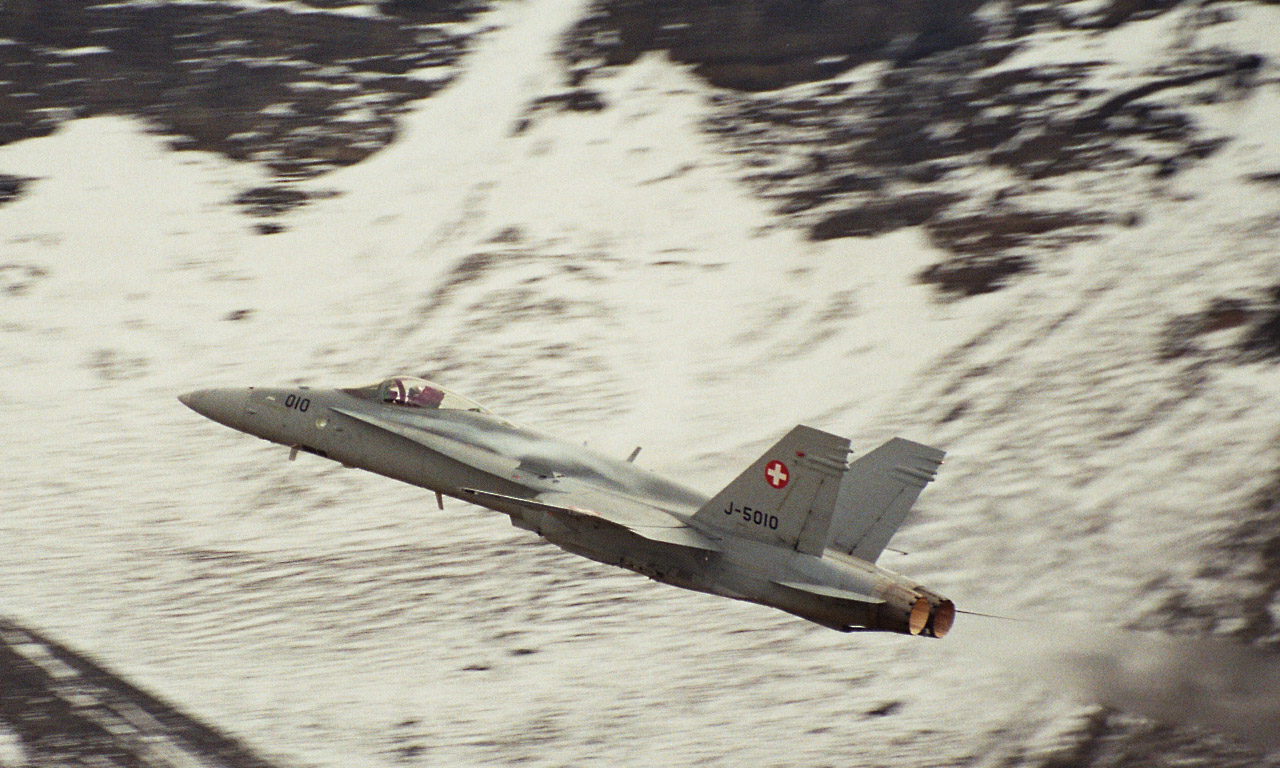 Boeing F/A-18C Hornet of the Swiss Air ForceAxalp Shooting Demo 2006, Axalp-Ebenfluh Bombing and Gunnery Range, Switzerland